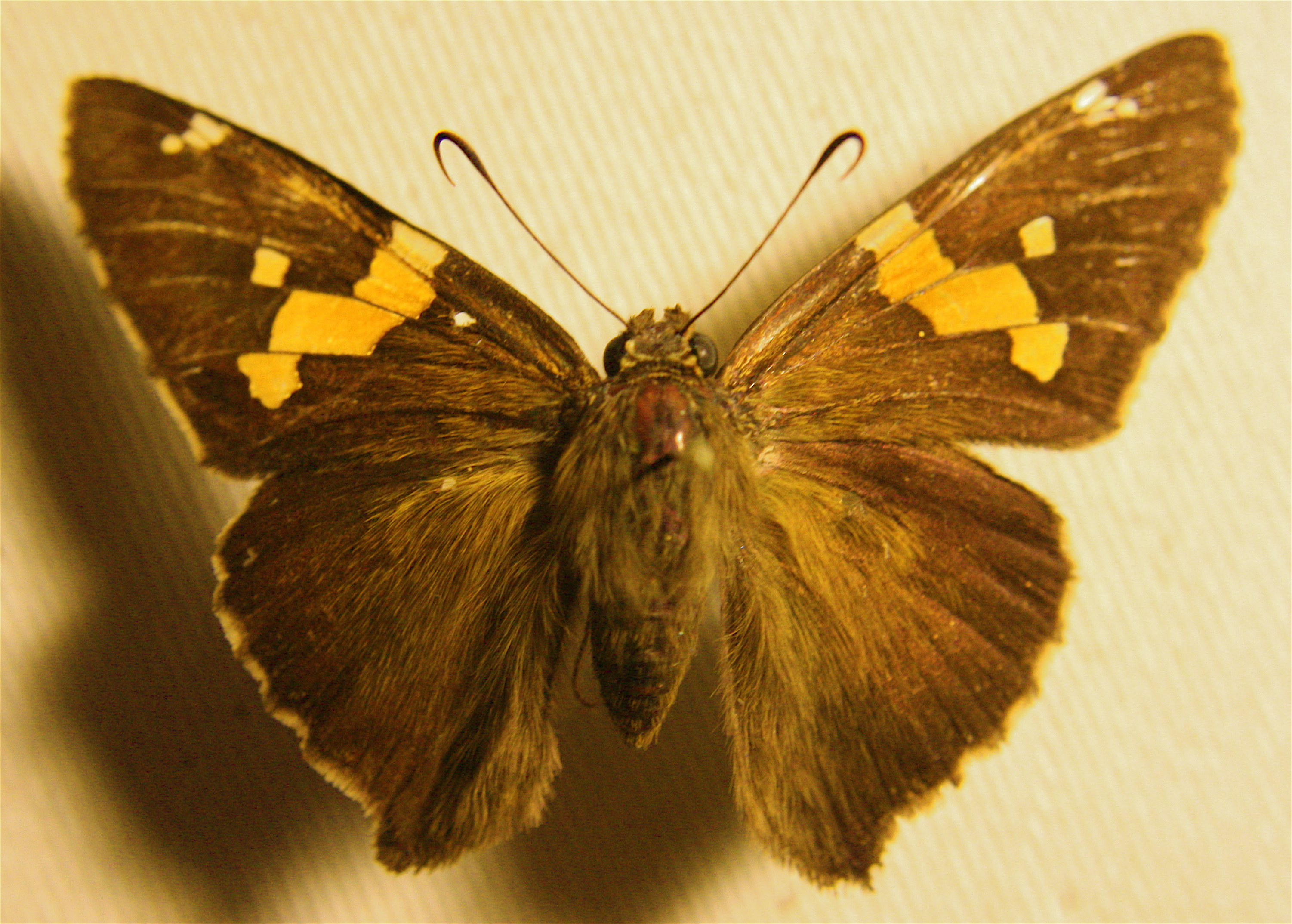 A Epargyreus clarus (Silver-spotted Skipper) in my personal collection. Collection Data June 15th, 2008 Portage, Michigan, United States (42.2325, -855359)